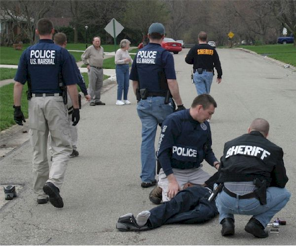 Press release photo of "U.S. Marshal Multi-Agency Team with Fugitive and Bystanders"